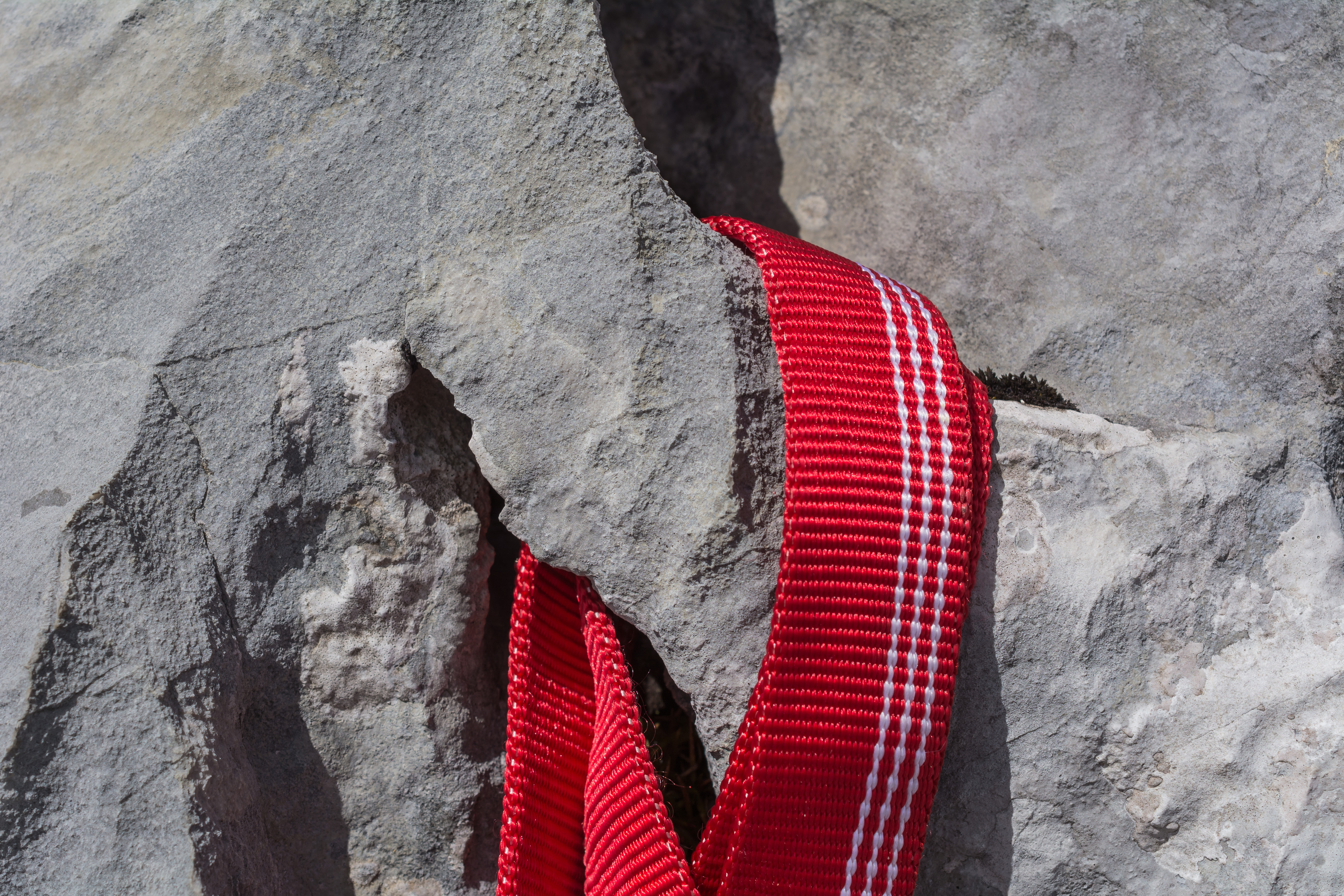 Limestone formation with hose strap sling in a pavement close to the refuge Welser Hütte in the mountain ridge Totes Gebirge.